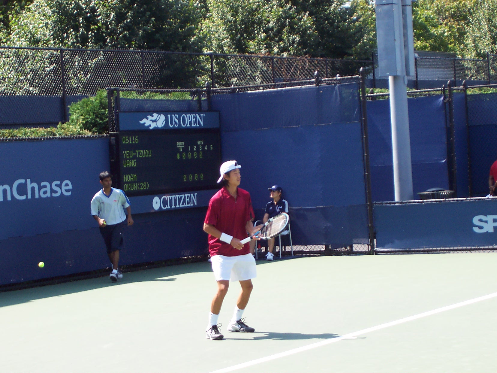 Yeu Tzoo Wang At The 2004 US Open